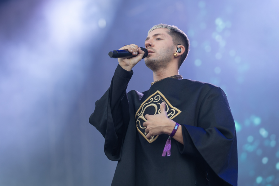 Ruben at Stavernfestivalen. The concert took place on 13. July 2019 in Stavern. Lineup:Ruben (vocal)